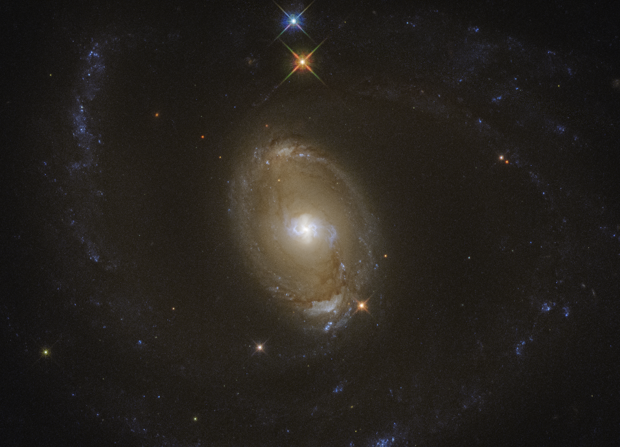 I'm still on a roll with the active galactic nuclei (AGN) and here is the latest, with thanks to Mitchell Revalski et al. for the list of interesting objects to investigate. I had the usual trouble with this one trying to balance the colors while making the illuminated filaments easy to discern. In many galaxies, the details near the nucleus are not so important to convey, and it is therefore ok if it's all a bright ball. Here, the image is quite dark to accommodate the details in the core. We're quite used to seeing spiral galaxies with uniformly yellowish cores full of old stars, so when something blue or green is spotted, it seems a bit odd, and that's one of the ways astronomers can find these fascinating galaxies. Such nuances are picked out relatively easily by comparing spectroscopic results from many different galaxies. Spectroscopy is kind of like a fingerprint in light, and whatever spikes and dips in the graph appear tell a story about how far the light traveled, what elements are present, and what's happening to those elements. Apparently there is not just one black hole at the center of this galaxy, but a pair that are eventually going to merge. Would you believe that spectroscopy can also tell us this? This is moving into the realm of things I don't understand well enough to explain, but here are a number of papers specifically on the case of this galaxy. Data from the following proposal were used to create this image: The Hosts of Megamaser Disk Galaxies The representation of filters was a bit difficult, as I used some near-infrared data for around the core, but it didn't extend all the way to the edge, and I had to make up for it with the F814W data there. With that in mind, colors are as follows: Red: WFC3/IR F160W + WFC3/IR F110W Green: WFC3/UVIS F814W Blue: WFC3/UVIS F438W + WFC3/UVIS F336W North is NOT up. It is 38.67° counter-clockwise from up.